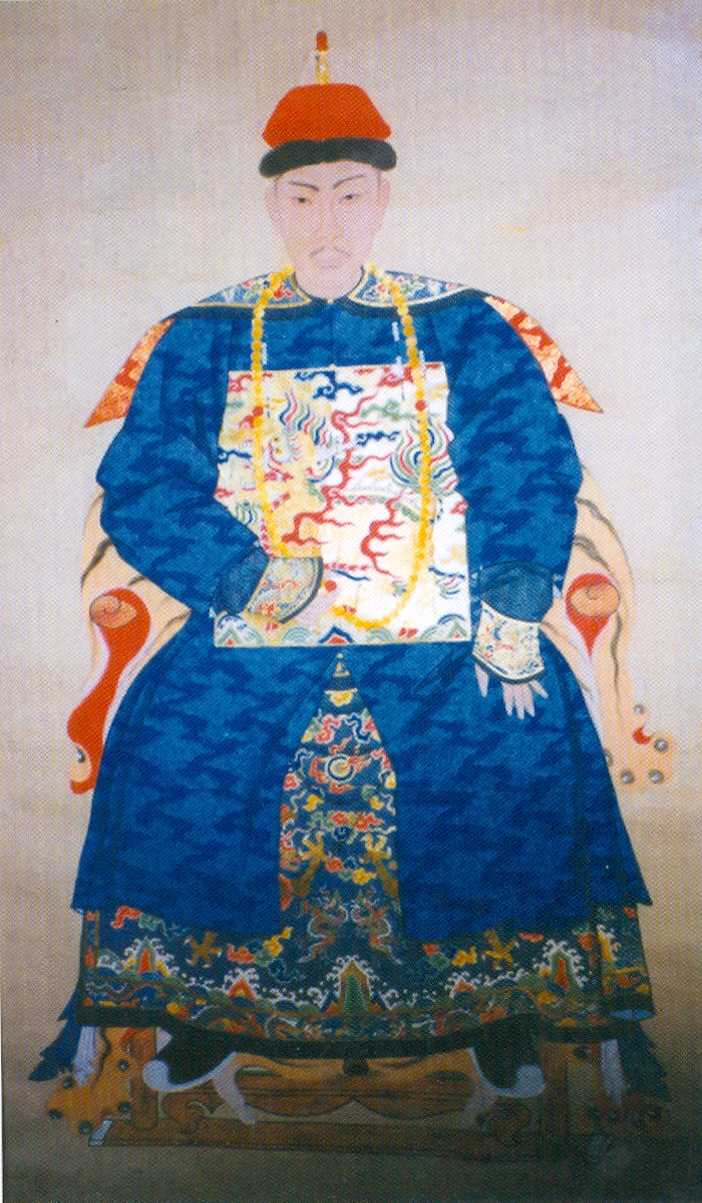 Portrait of Shang Zhixin (son of Shang Kexi), one of the Chinese Three Feudatories who rebelled against the Qing dynasty in the 1670s.